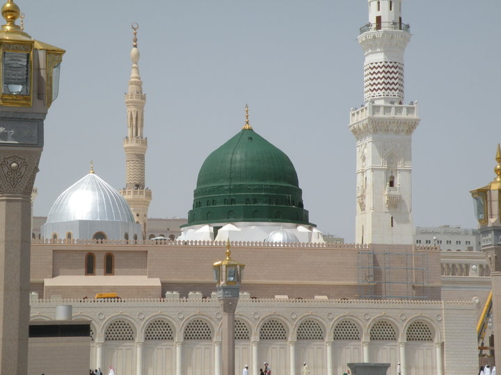 Green dome, Masjid e Nabawi, Medina, KSA